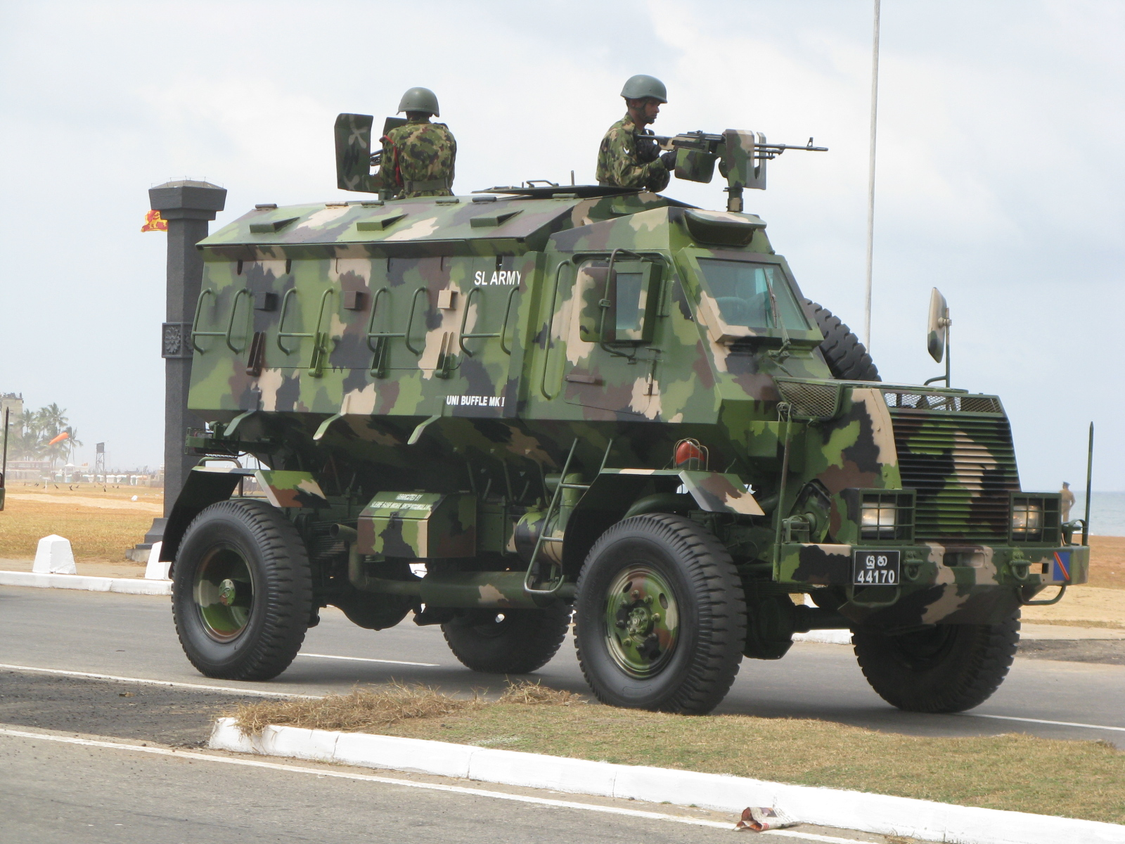 Unibuffel MK II Armored Personnel Carrier - Sri Lanka Army